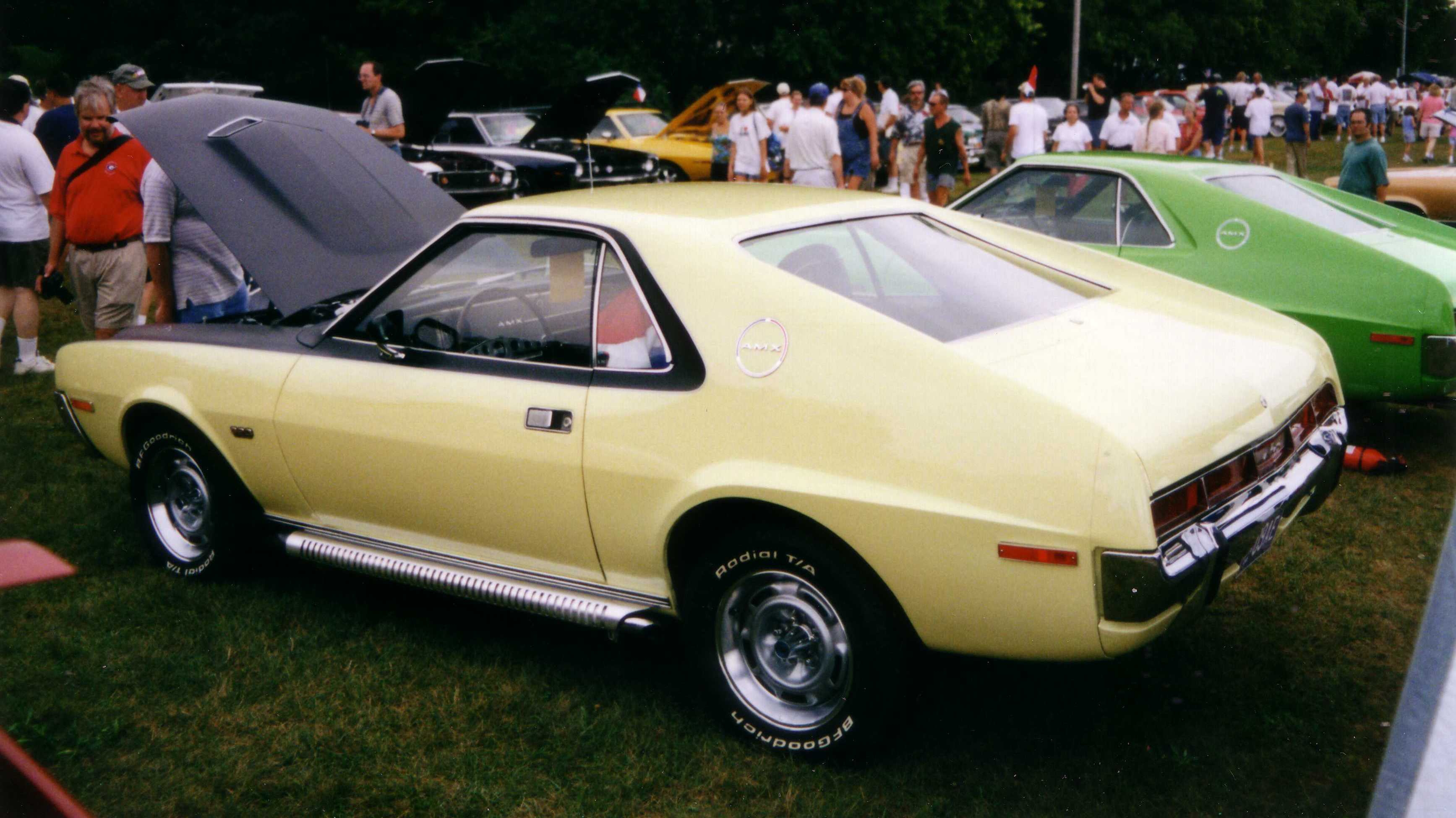 1970 AMC (American Motors Corporation) AMX sports coupe finished in yellow with the black "shadow mask" option. Factory 390 (6.4 L) "Go Package". This car also has the optional 15-inch "Machine" wheels and side-pipe exhaust system.